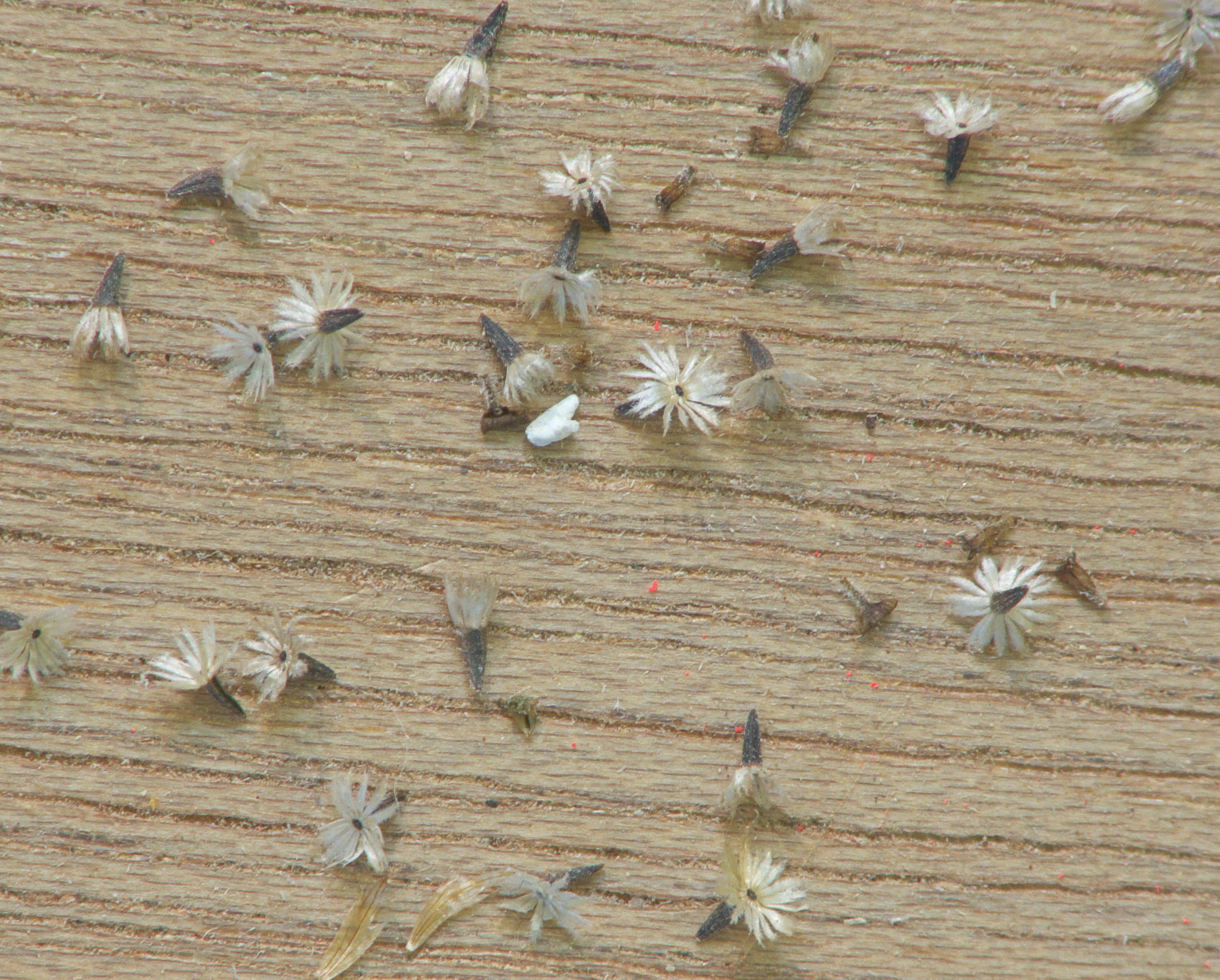 Galinsoga parviflora fruits, length without pappus 1 mm